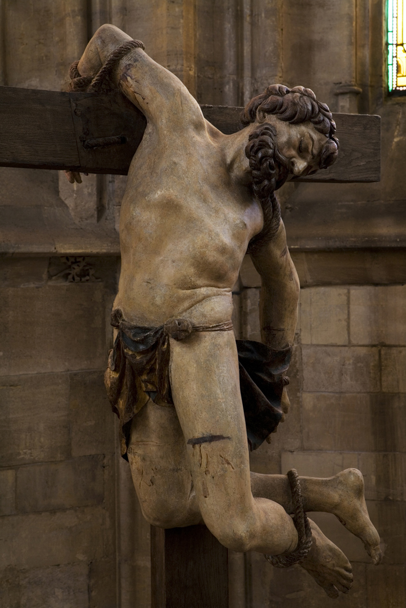 Ligier Richier calvary in the church of St Etienne in Bar-le-Duc